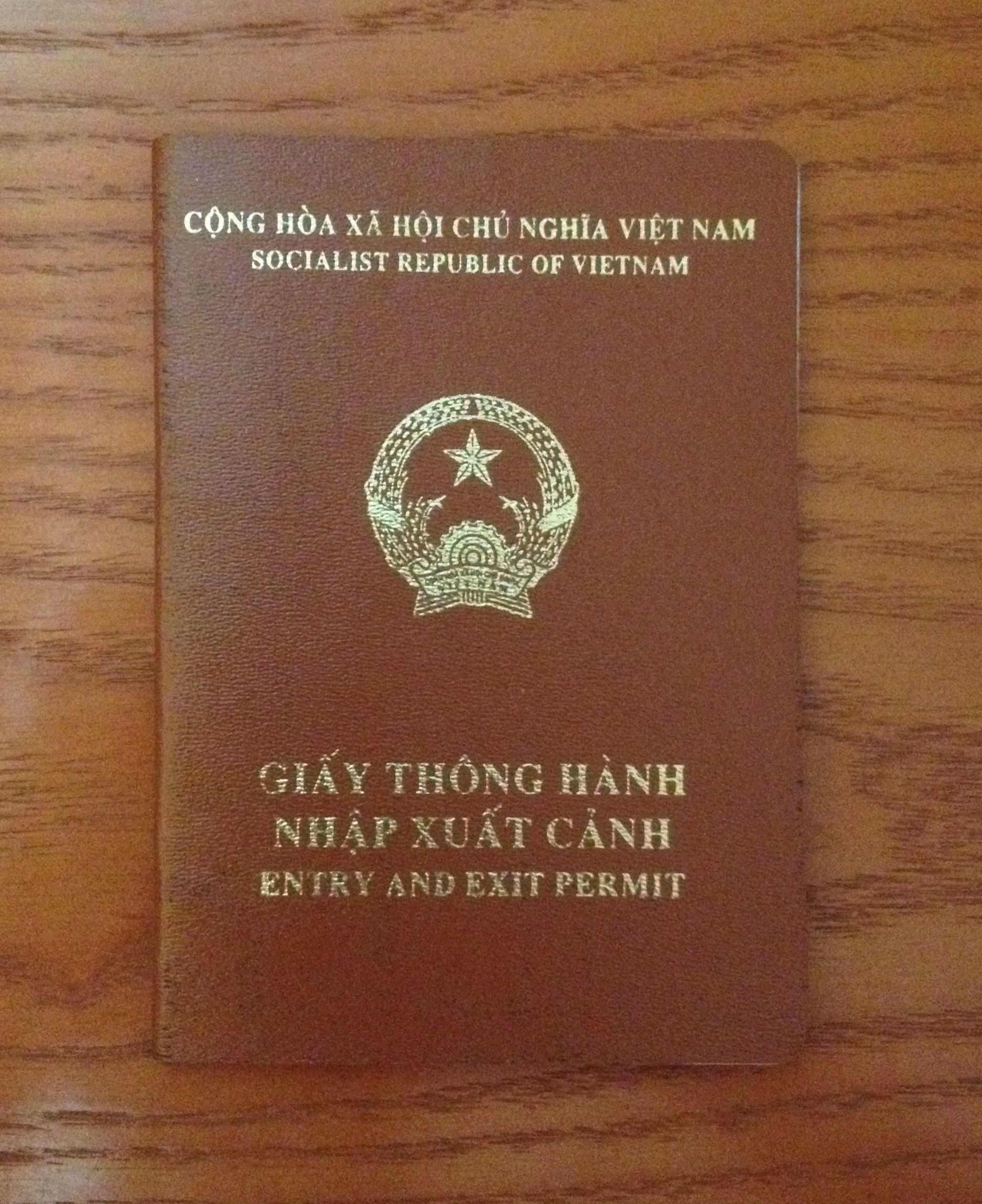 Vietnamese entry and exit permit issued to Vietnamese citizen to go to People's Republic of China's border cities.